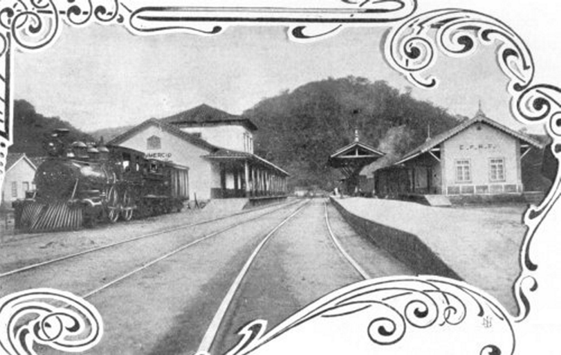 Sebastião de Lacerda railway station in Vassouras, Rio de Janeiro (state). Year 1908.